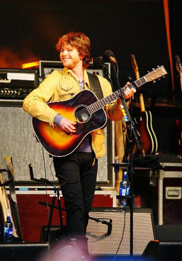 Musician and composer Espen Lind